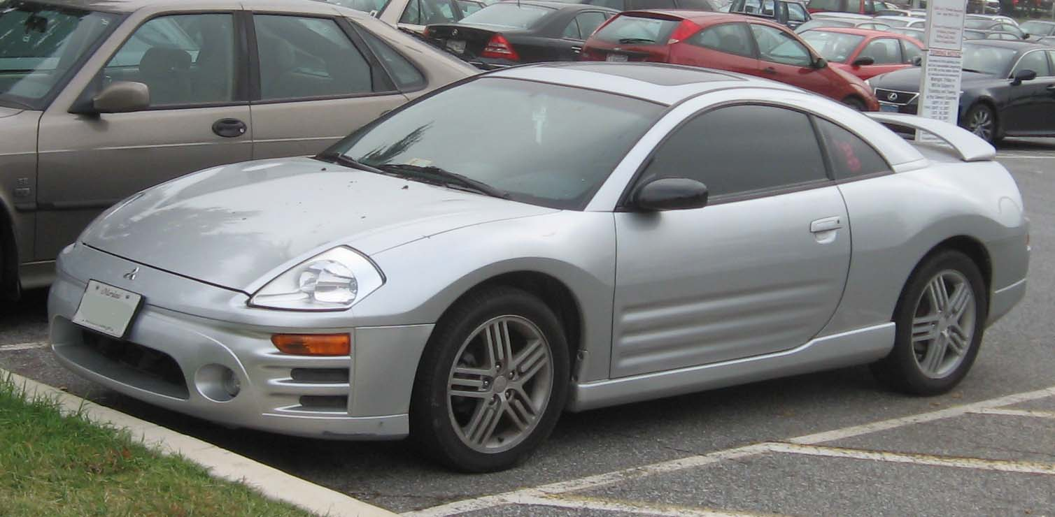 2003-2005 Mitsubishi Eclipse photographed in College Park, Maryland, USA.